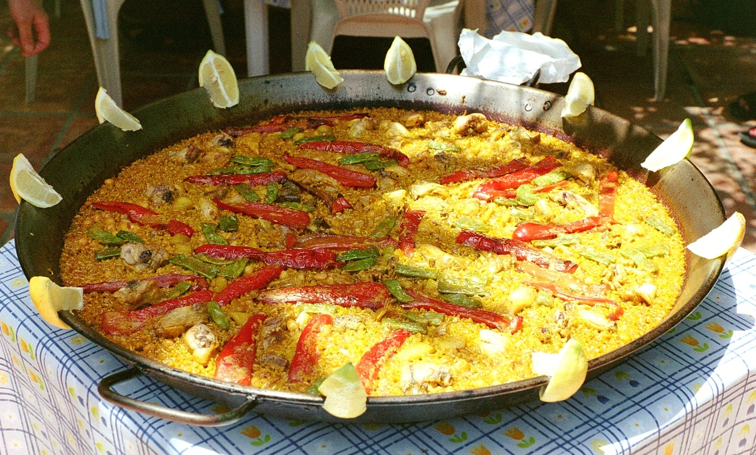 Paella from Altea, in the Land of Valencia